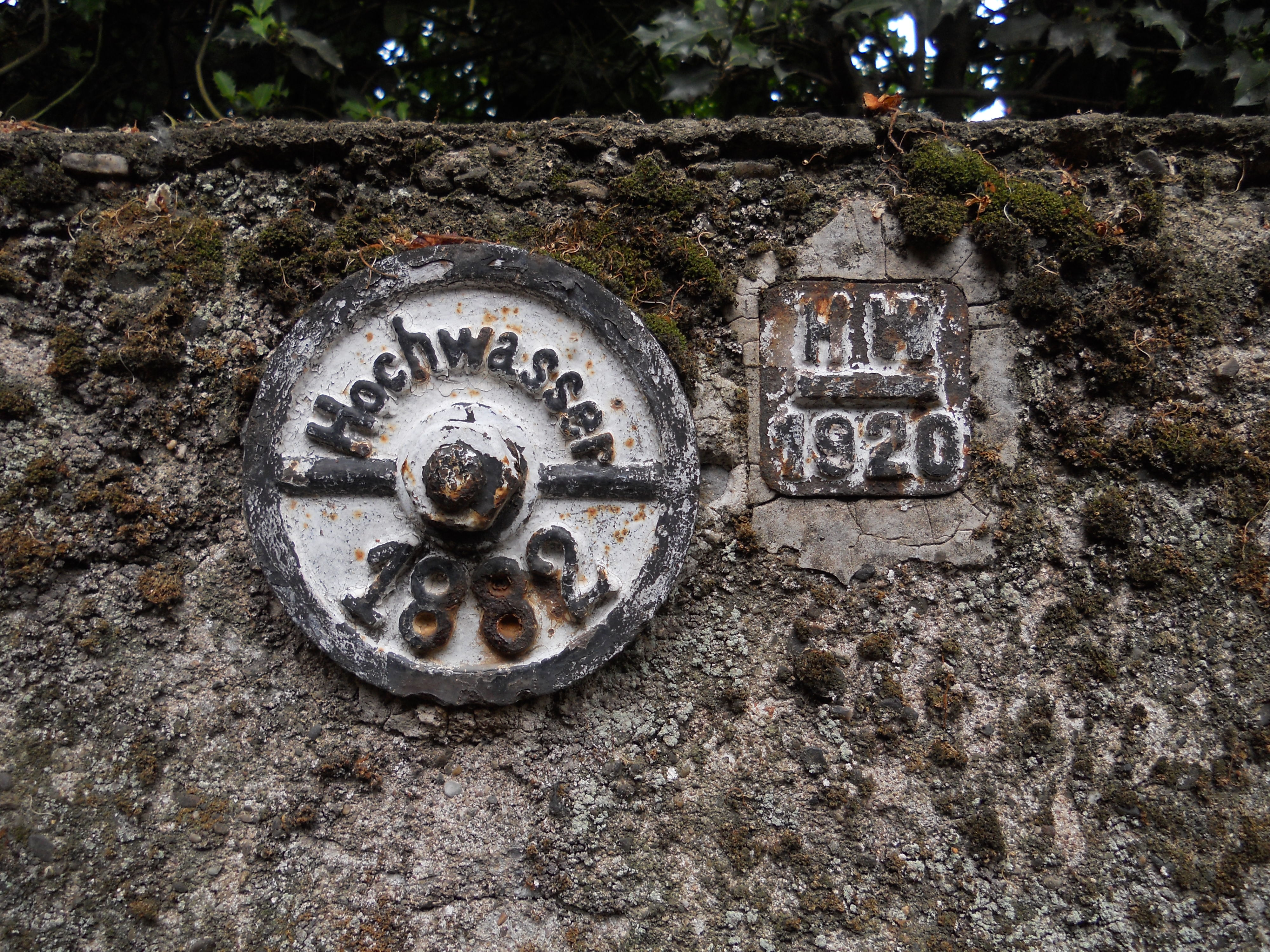 Highwater marks from Bad Hönningen near the River Rhine. The 1882 flood lasted from november 1882 to January 1883[1], the other one reached its peak in January 18th 1920[2]